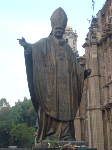 Pope Saint John Paul II Statue outside the Church of Our Lady of Gaudalupe, Tepeyac, Mexico City.